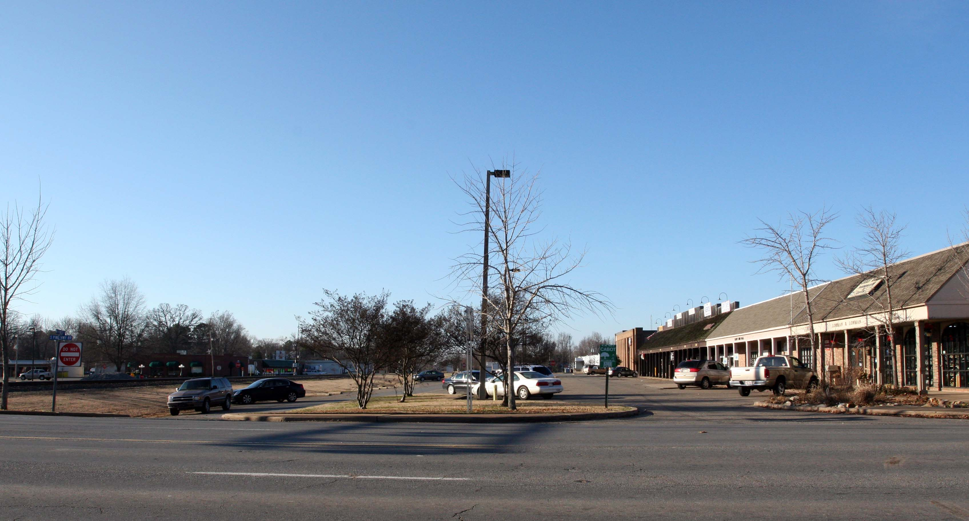 Image of Cabot, Arkansas. Taken by me 12/06, released into public domain.